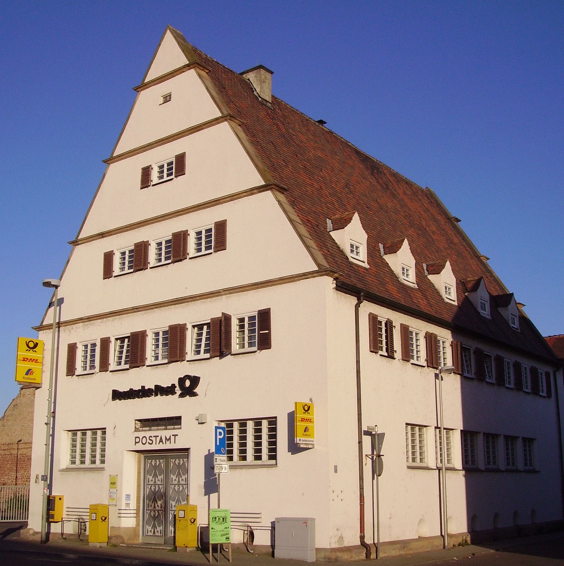 view of Mutterstadt, Germany